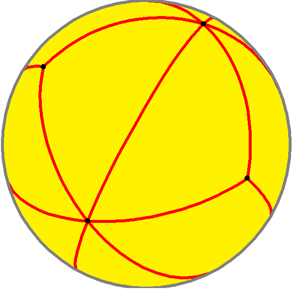 Spherical polyhedron triakis tetrahedron